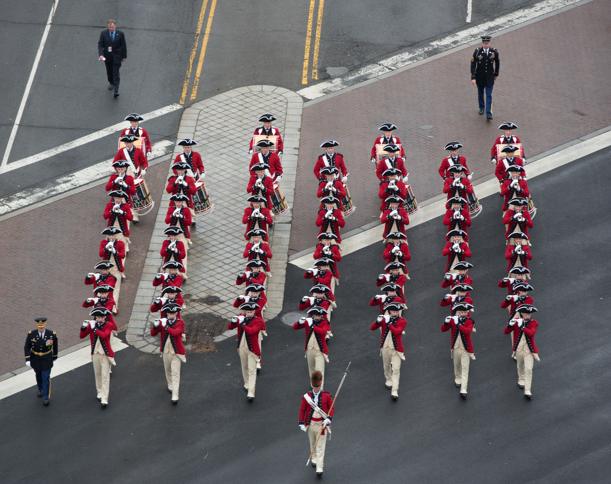 U.S. Army 3d Infantry Regiment "The Old Guard" Fife and Drum Corps march down Pennsylvania Avenue toward the White House as part of the Presidental Escort in Washington D.C., Jan 20, 2017. More the 5,000 Military members from across all branches of the armed forces of the United States, including Reserve and National Guard components, provided ceremonial support and Defense Support of Civil Authorities during the inaugural period. (DoD photo by U.S. Army Spc. Dacotah Lane) Unit: Joint Task Force - National Capital Region 58th Presidential Inauguration DVIDS Tags: POTUS; USA; Old Guard; Inaugural parade; Fife and Drum Corps; JTF-NCR; Inauguration2017; President Donald J. Trump